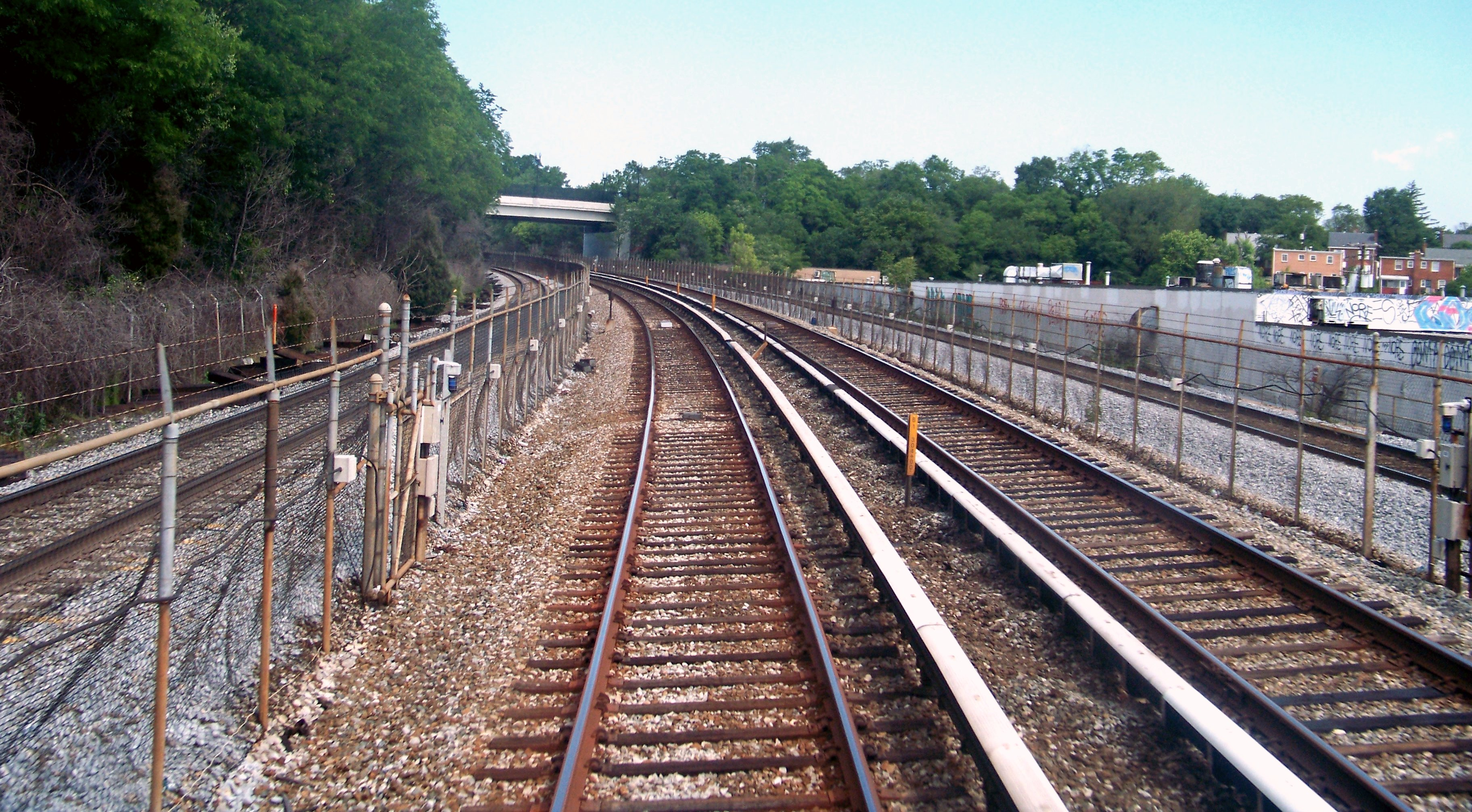 Site of the 2009 Washington Metro train collision, seen from the back of Alstom 6075.